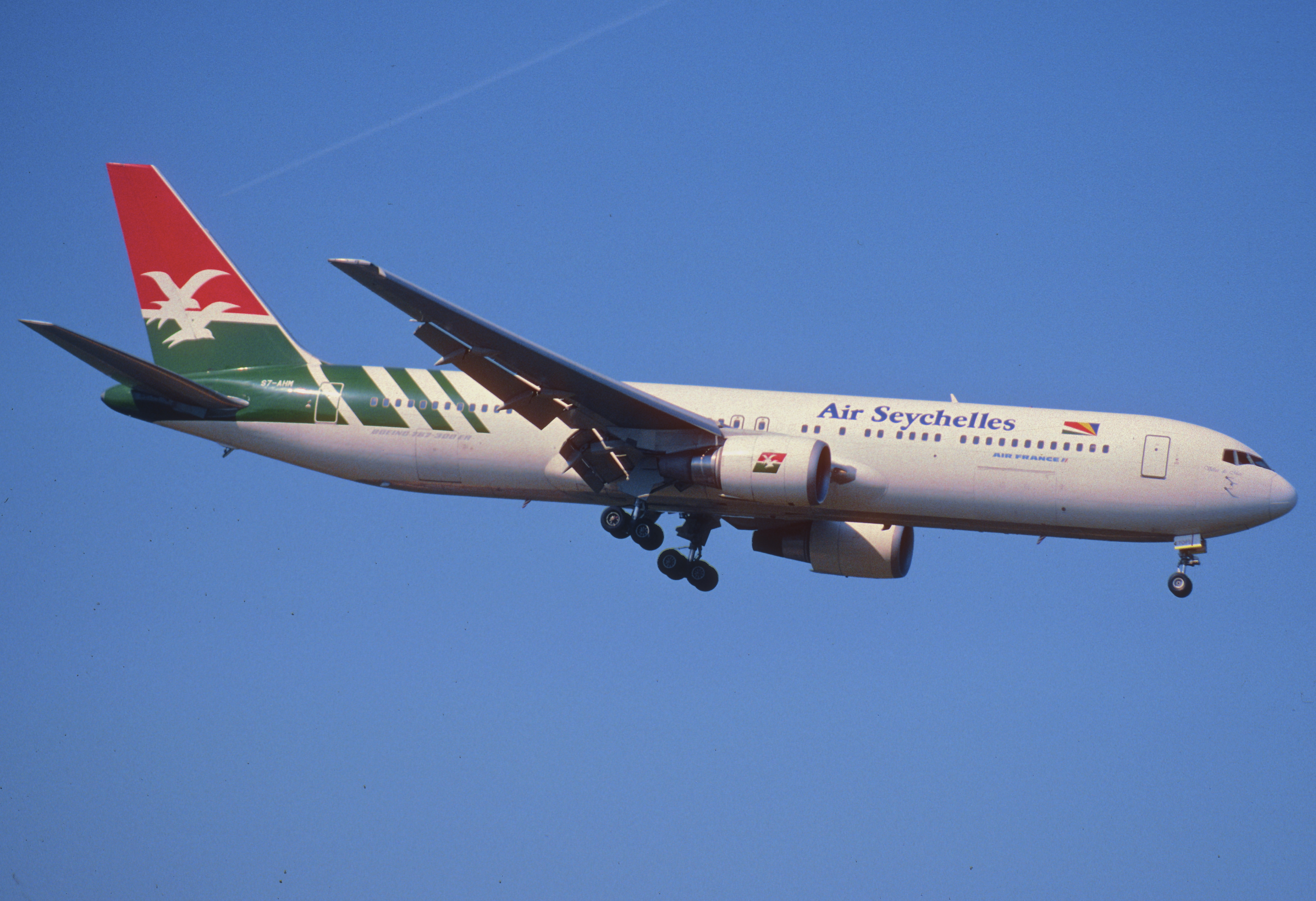 First flight: November 18, 1996...